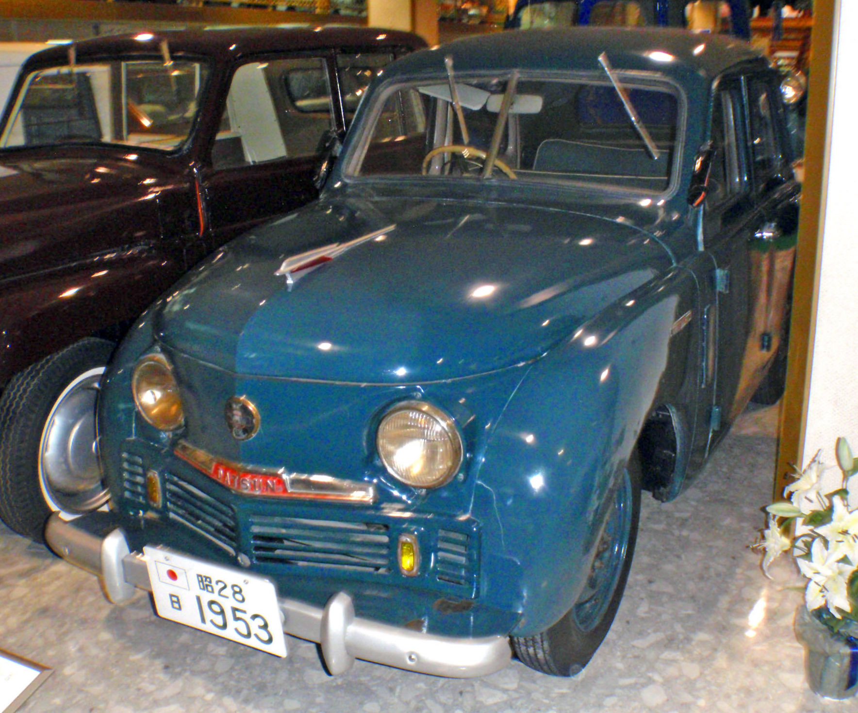 1953 Datsun DB-4 at the Motorcar Museum of Japan. This was the last year for the DB-4, which was replaced by the slightly modernized DB-5 that year.